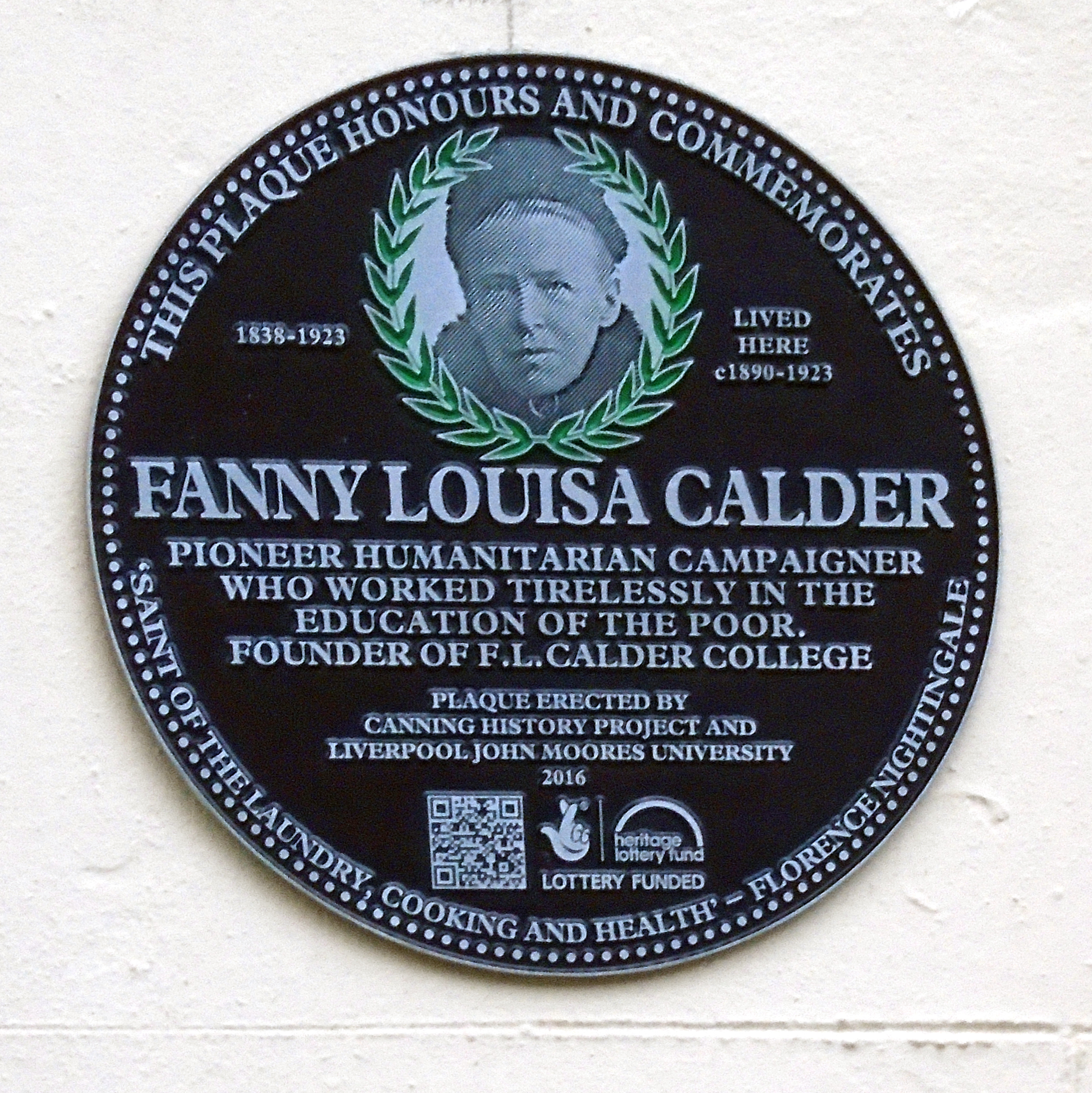 Fanny Calder Sited on 49 Canning Street, Liverpool